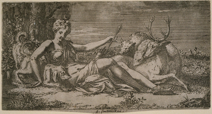 Léon Davent, French, active ca. 1540–1560, after Francesco Primaticcio, Italian, 1504–1570, Diana at Rest, after 1547, Etching